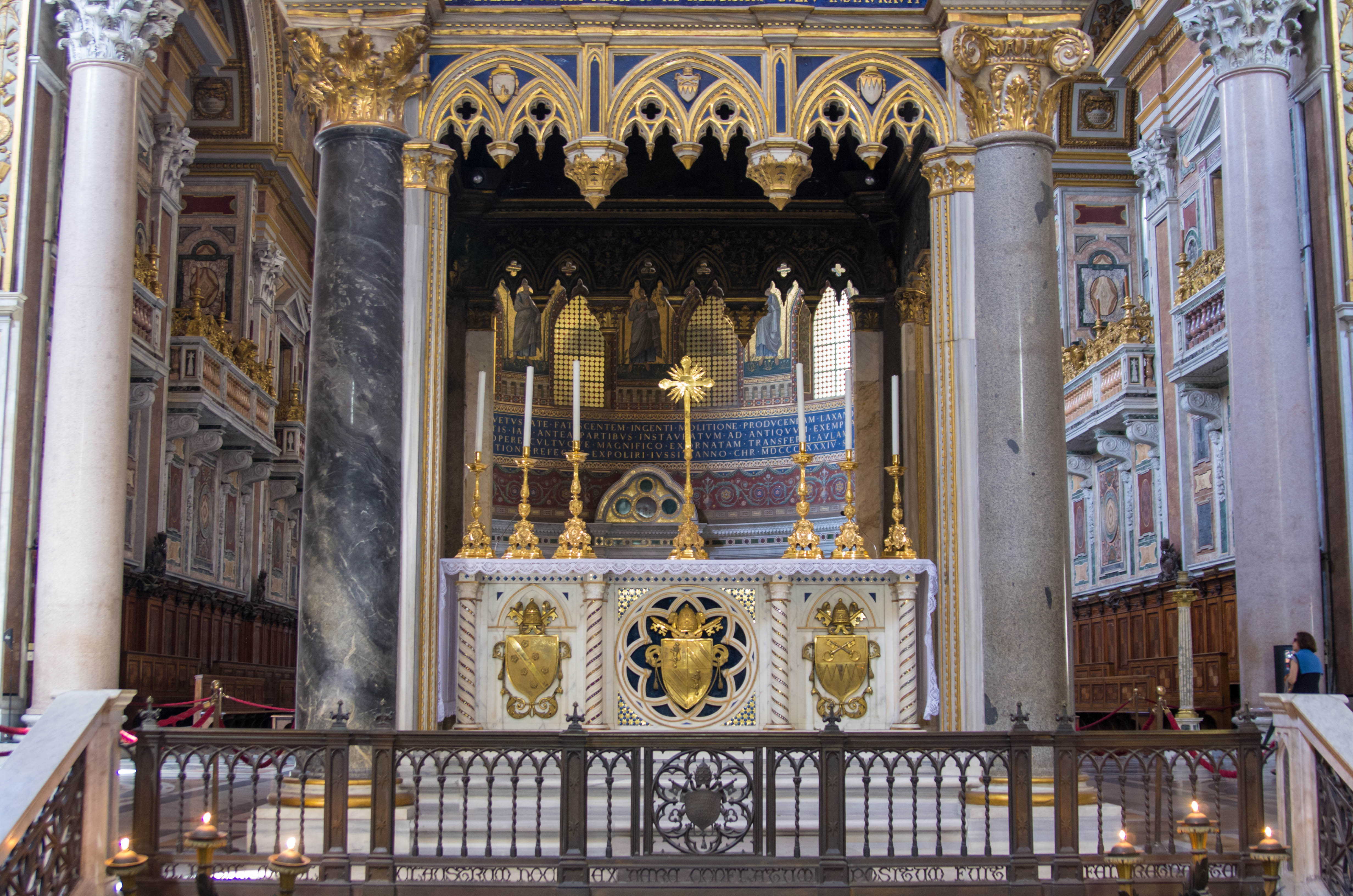 San Giovanni in Laterano (Rome) - Interior